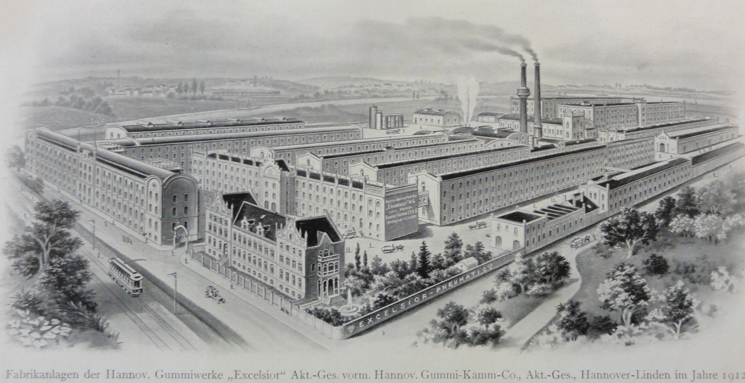 Hannover Gummiwerk Excelsior AG, 50th anniversary 1912